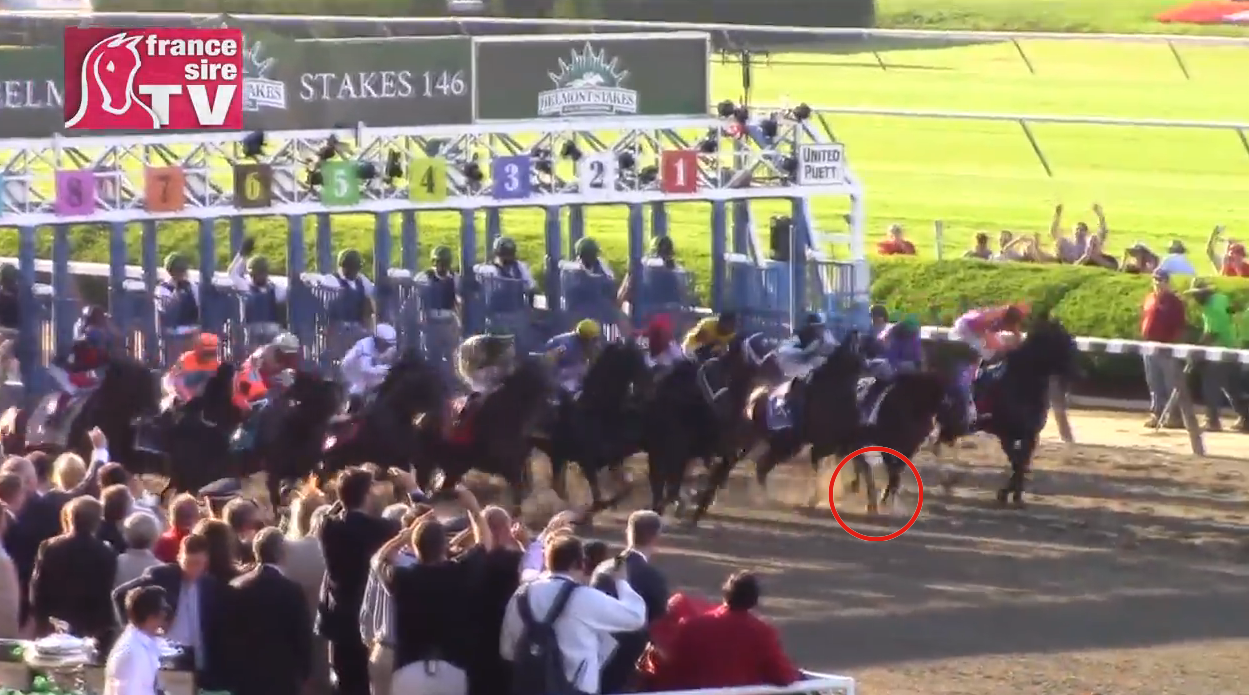 Start of the Belmont Stakes 2014. California Chrome, in number 2 spot, stumbles at the start due to being stepped on by the number 3 horse, (see red circled area) an incident that may have cost him the race